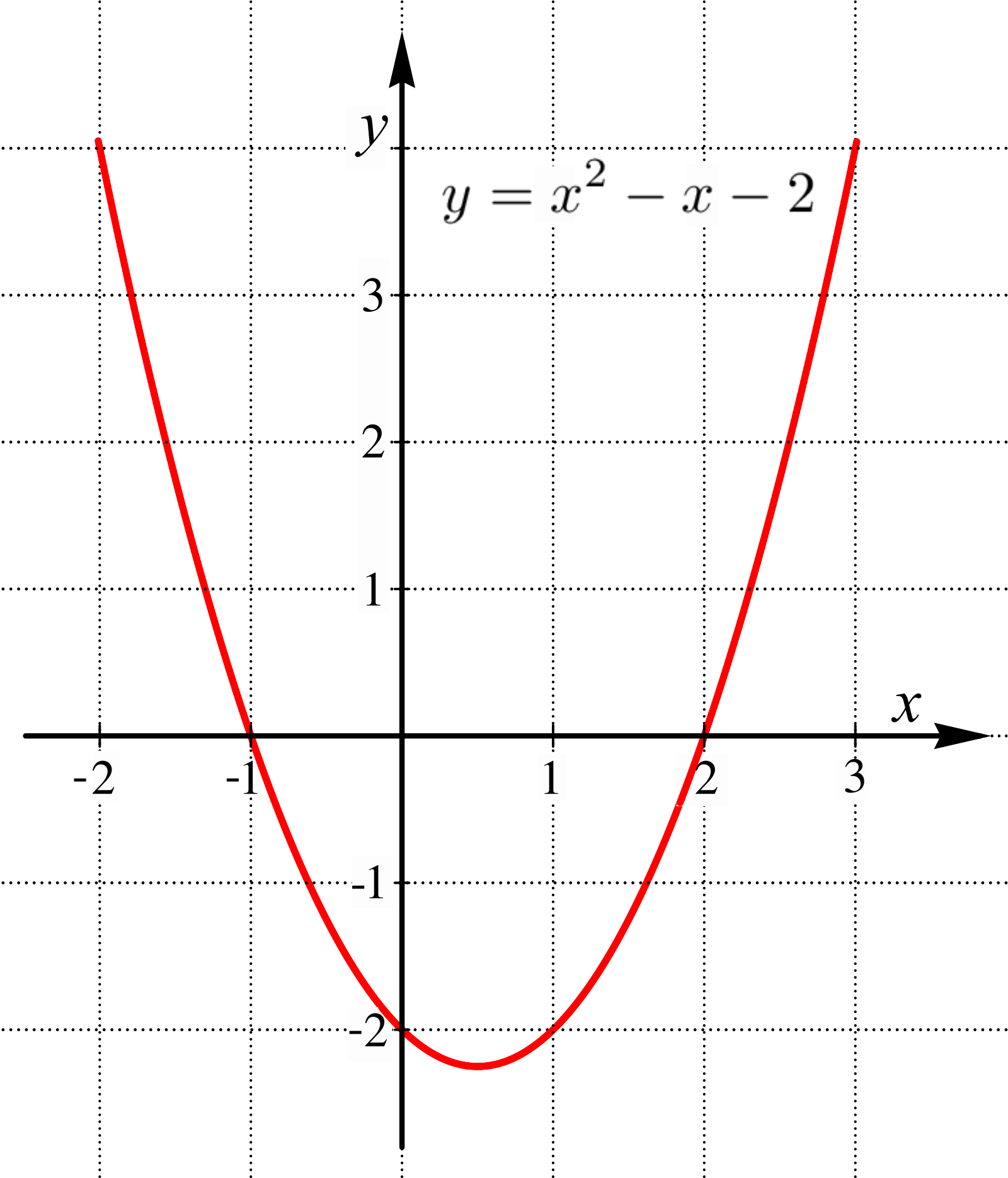 Polynom of degree 2